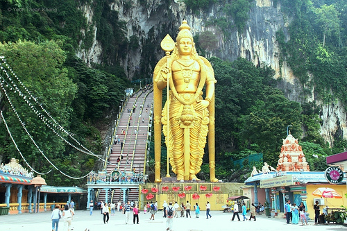 Lord Muruga - A popular Hindu deity